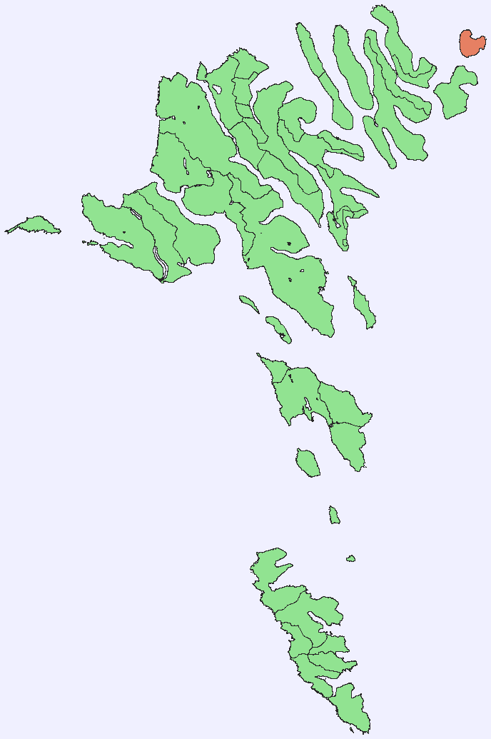 Position of Fugloy, Faroe Islands